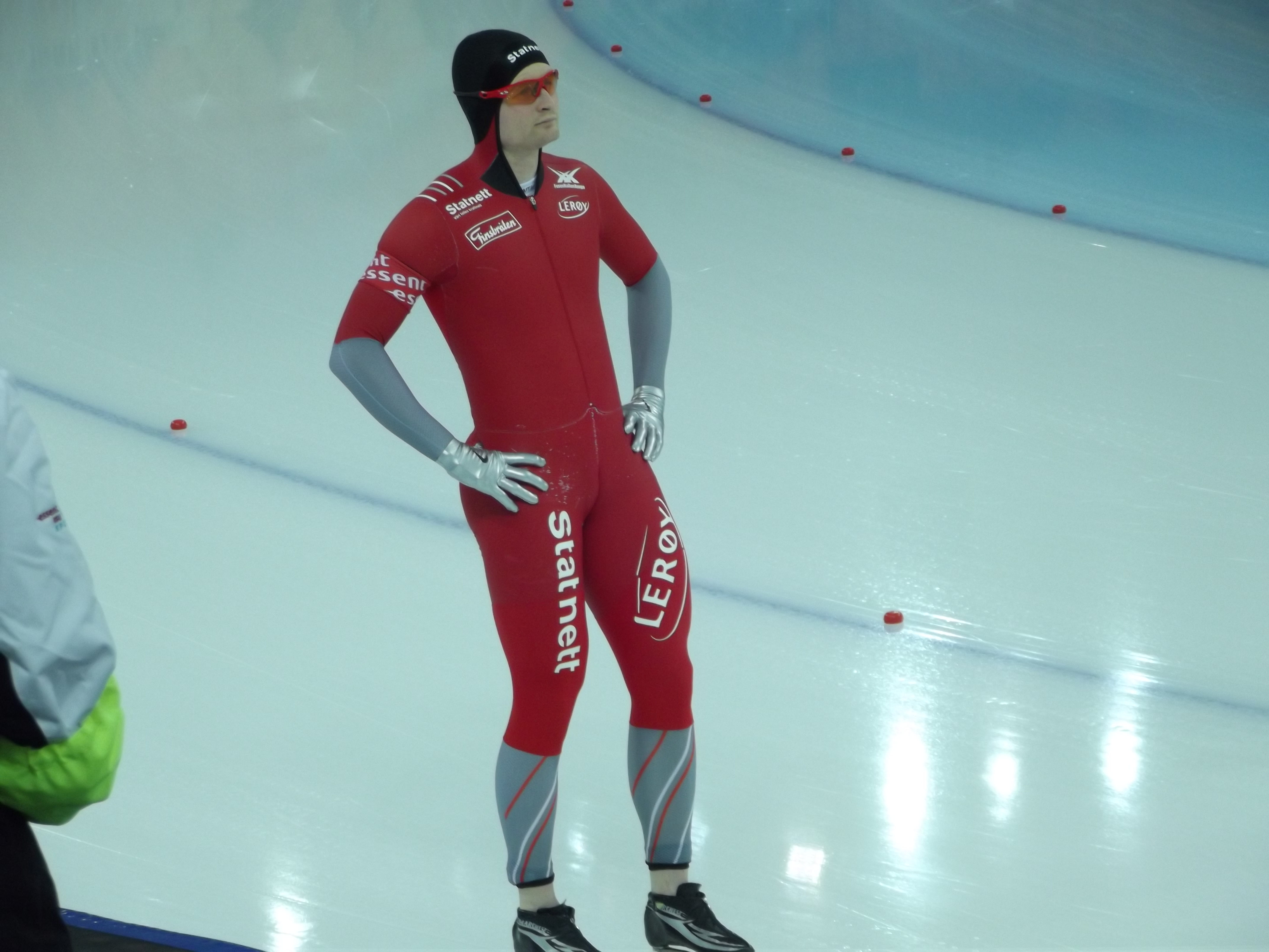 2013 World Single Distance Speed Skating Championships